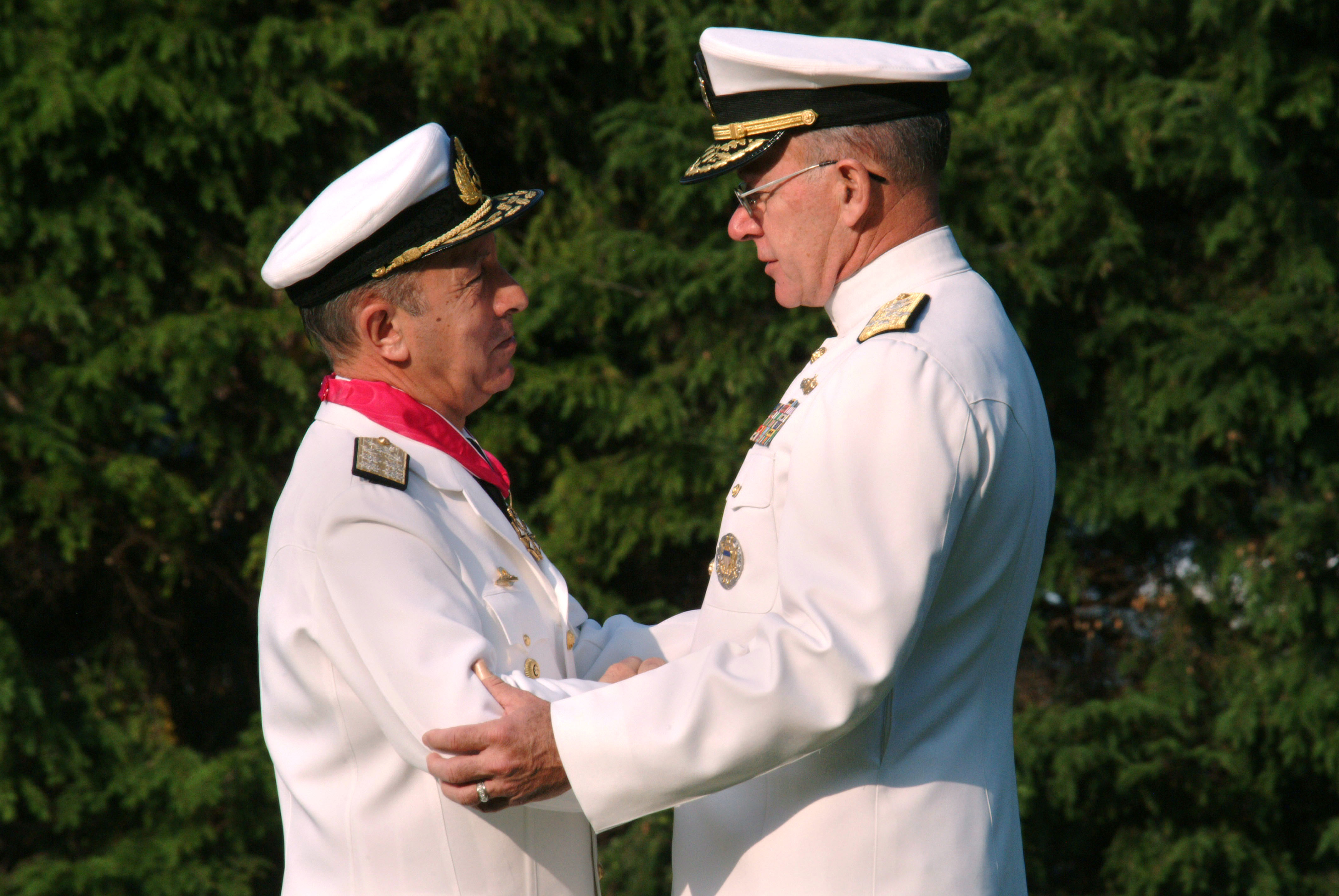 Washington, D.C. (Oct. 1, 2004) - Chief of Staff, Argentine Navy, Adm. Jorge Omar Godoy is congratulated by Chief of Naval Operations (CNO) Adm. Vern Clark, after receiving the Legion of Merit. Adm. Godoy is on an official visit to the United States. U.S. Navy photo by Chief Photographer's Mate Johnny Bivera (RELEASED)